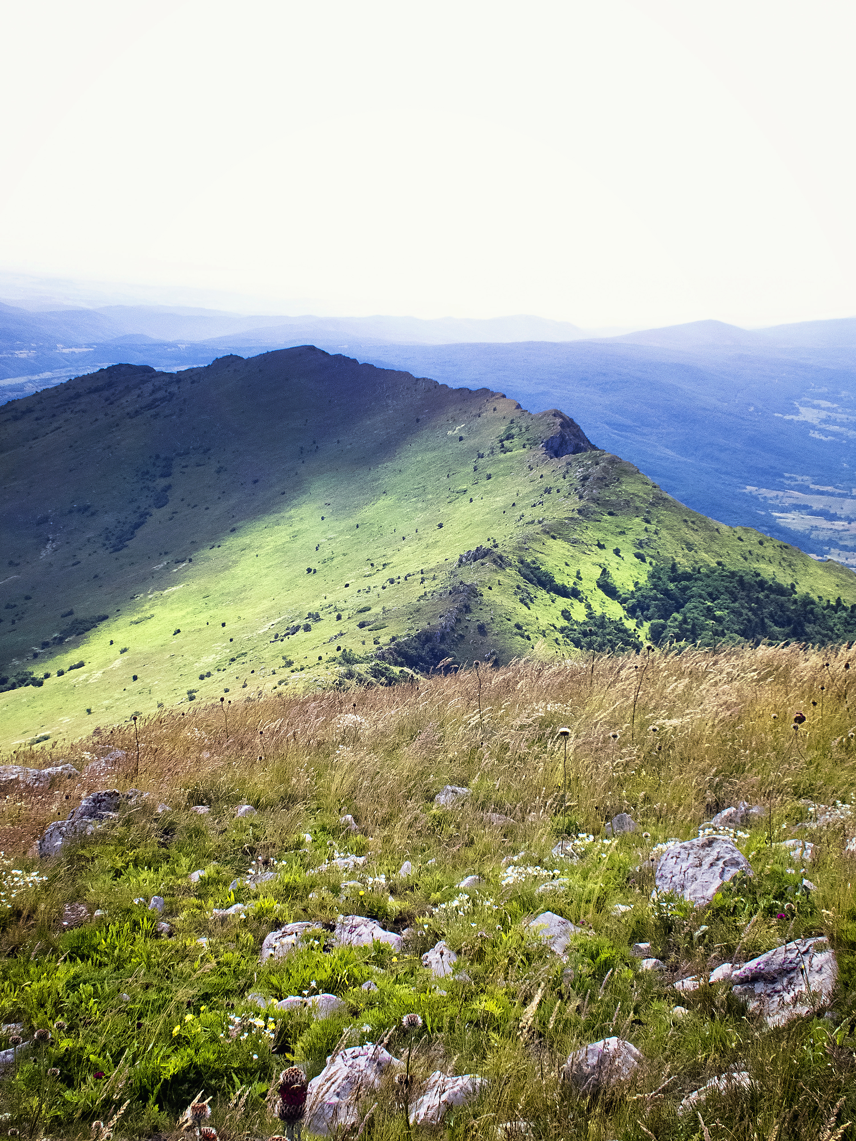 Rtanj mountain, Eastern Serbia